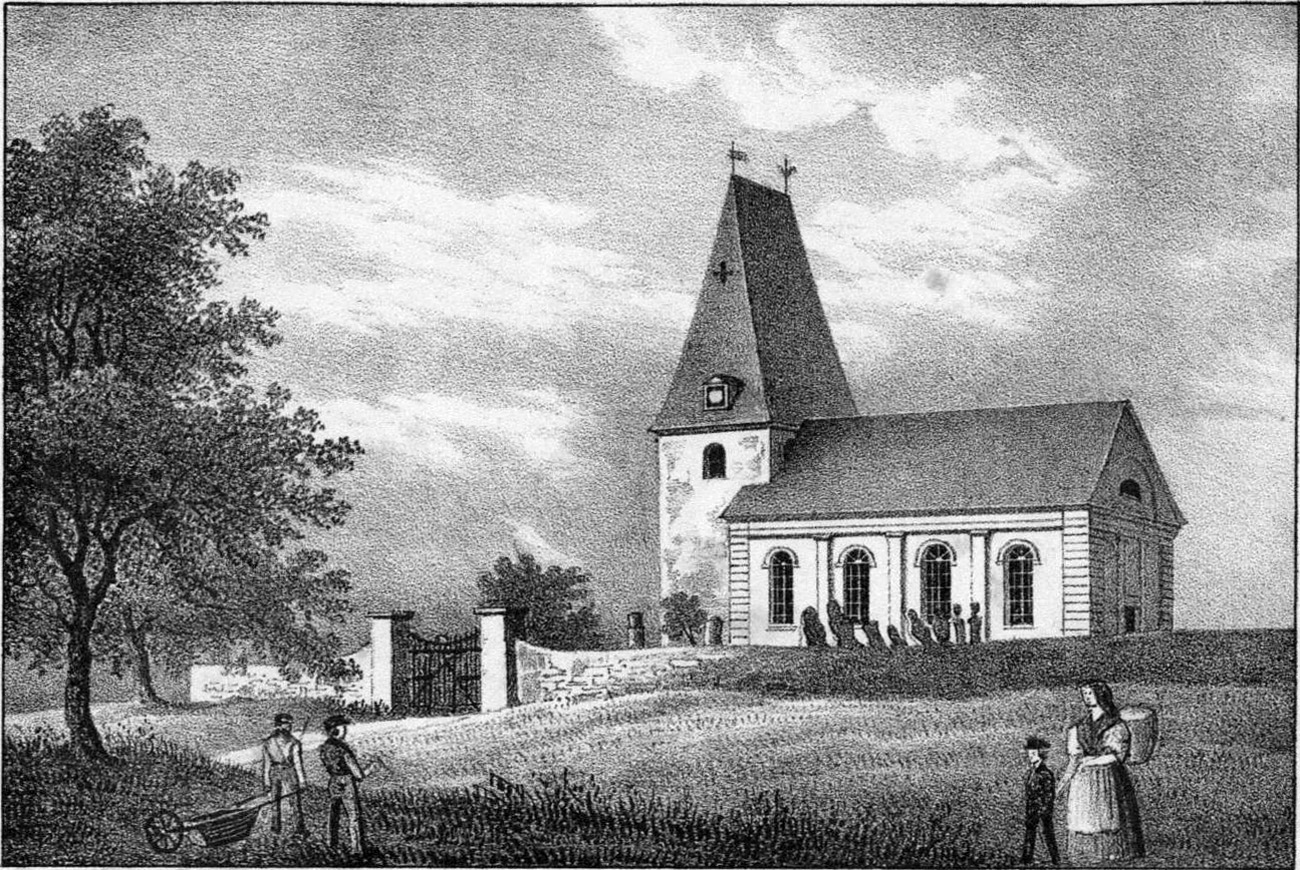 Evangelical Lutheran St. Pancras Church in Leipzig-Engelsdorf